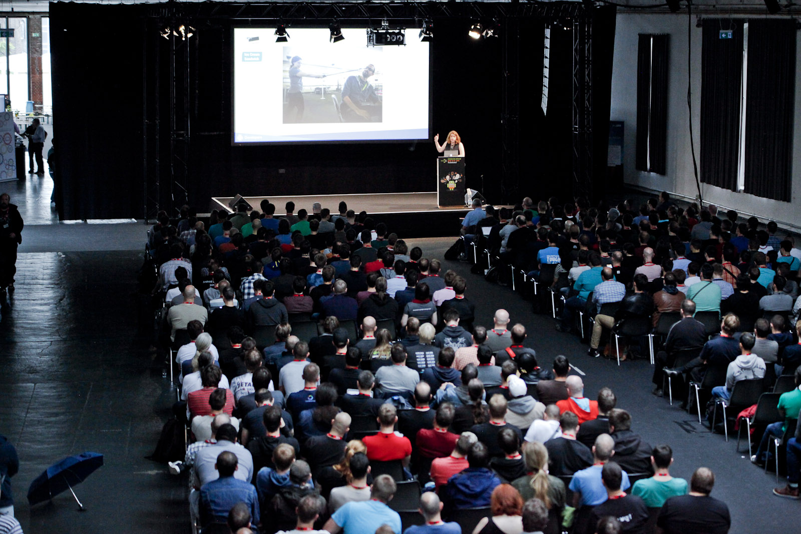 The 8th edition droidcon Berlin took place at Postbahnhof from June 15 - 17, 2016. Photo: cc-by-sa 2.0 Jan Michalko